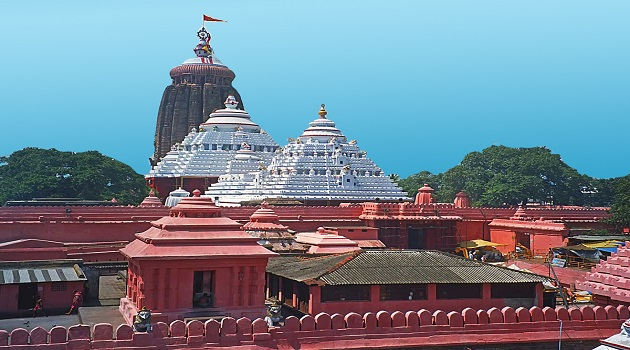 jagannath temple, religious place located in Puri,India